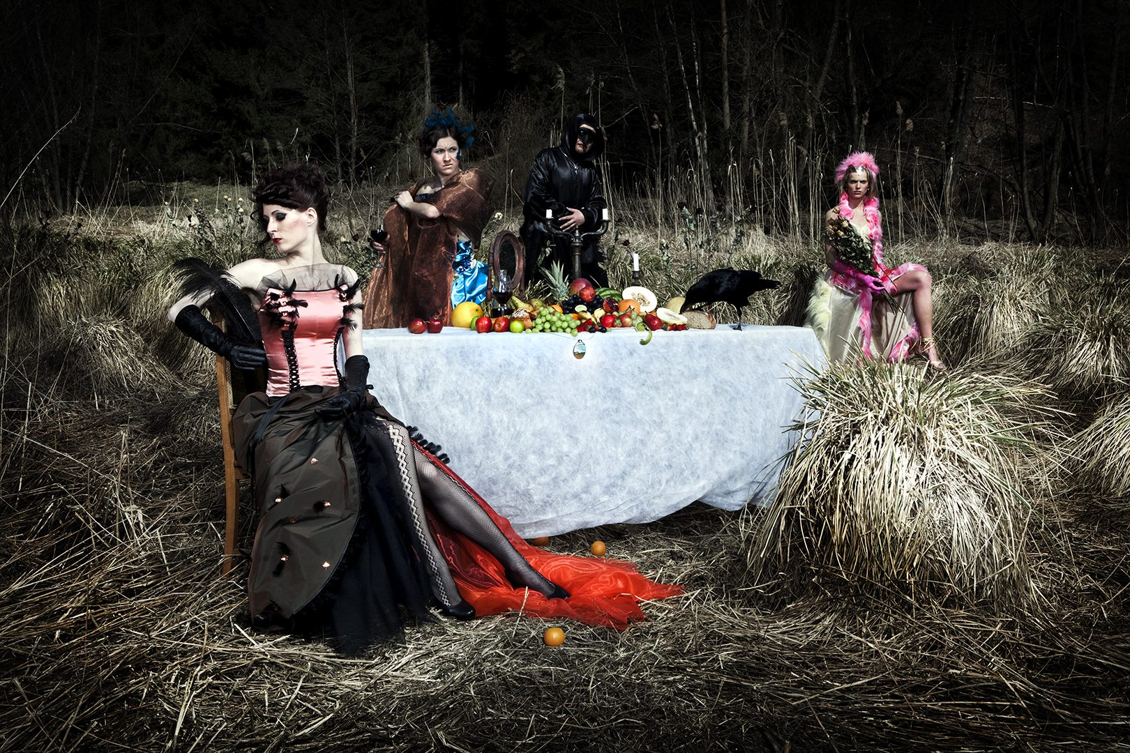 Šimon Pikous´s photography Personality rights warningAlthough this work is freely licensed or in the public domain, the person(s) shown may have rights that legally restrict certain re-uses unless those depicted consent to such uses. In these cases, a model release or other evidence of consent could protect you from infringement claims.